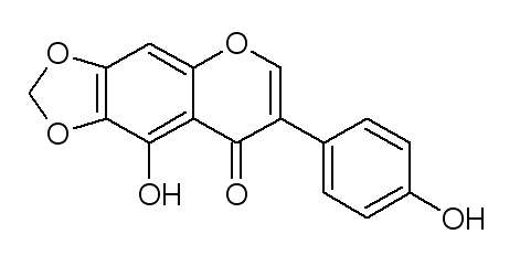 chemical structure of irilone